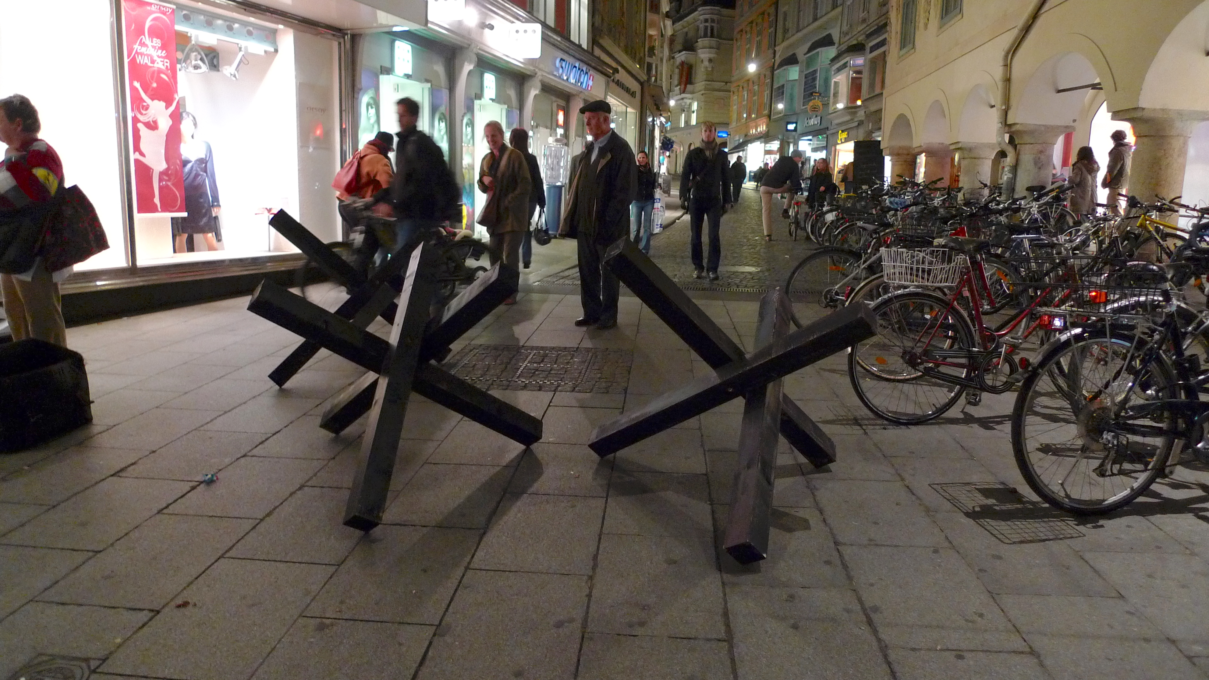 "New Kids On The Roadblock" by monochrom (an example of a sculpture mob in Graz, Austria, 2008)